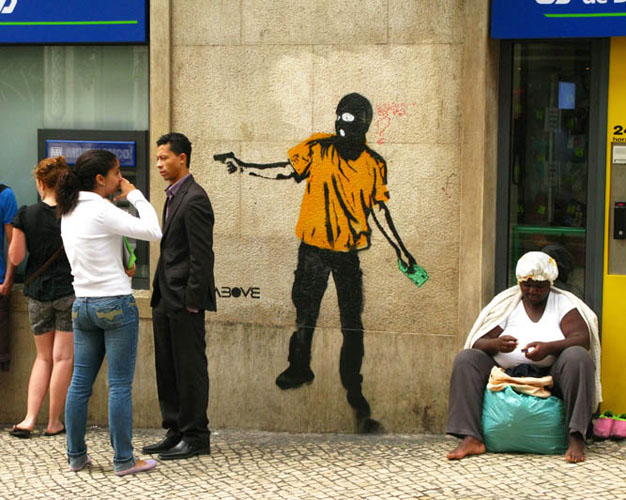 A stencil from contemporary street artist "ABOVE" in Lisbon, Portugal.